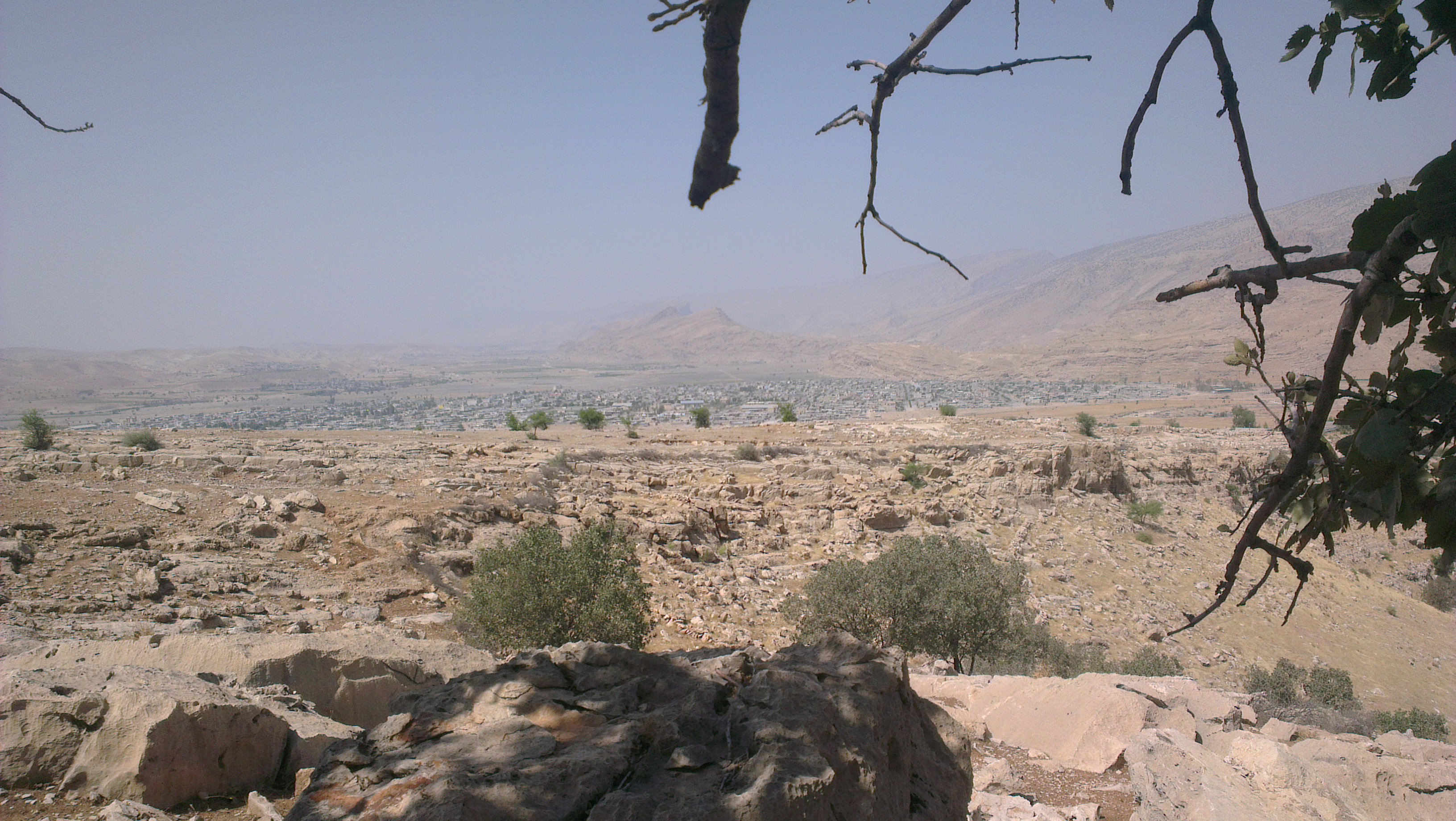 photo of choram city